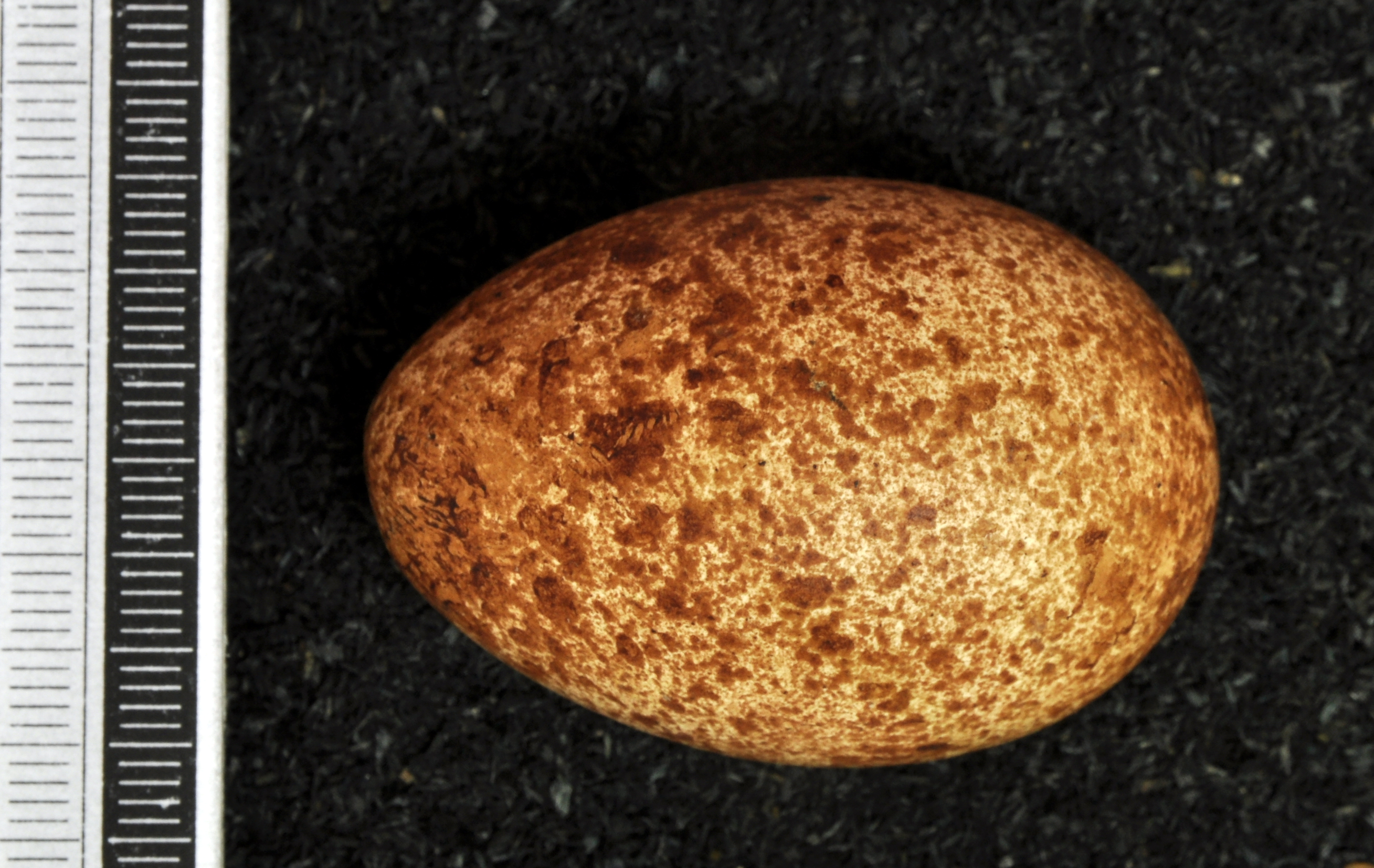 Eurasian hobby Falco subbuteo , egg, Coll. Museum Wiesbaden